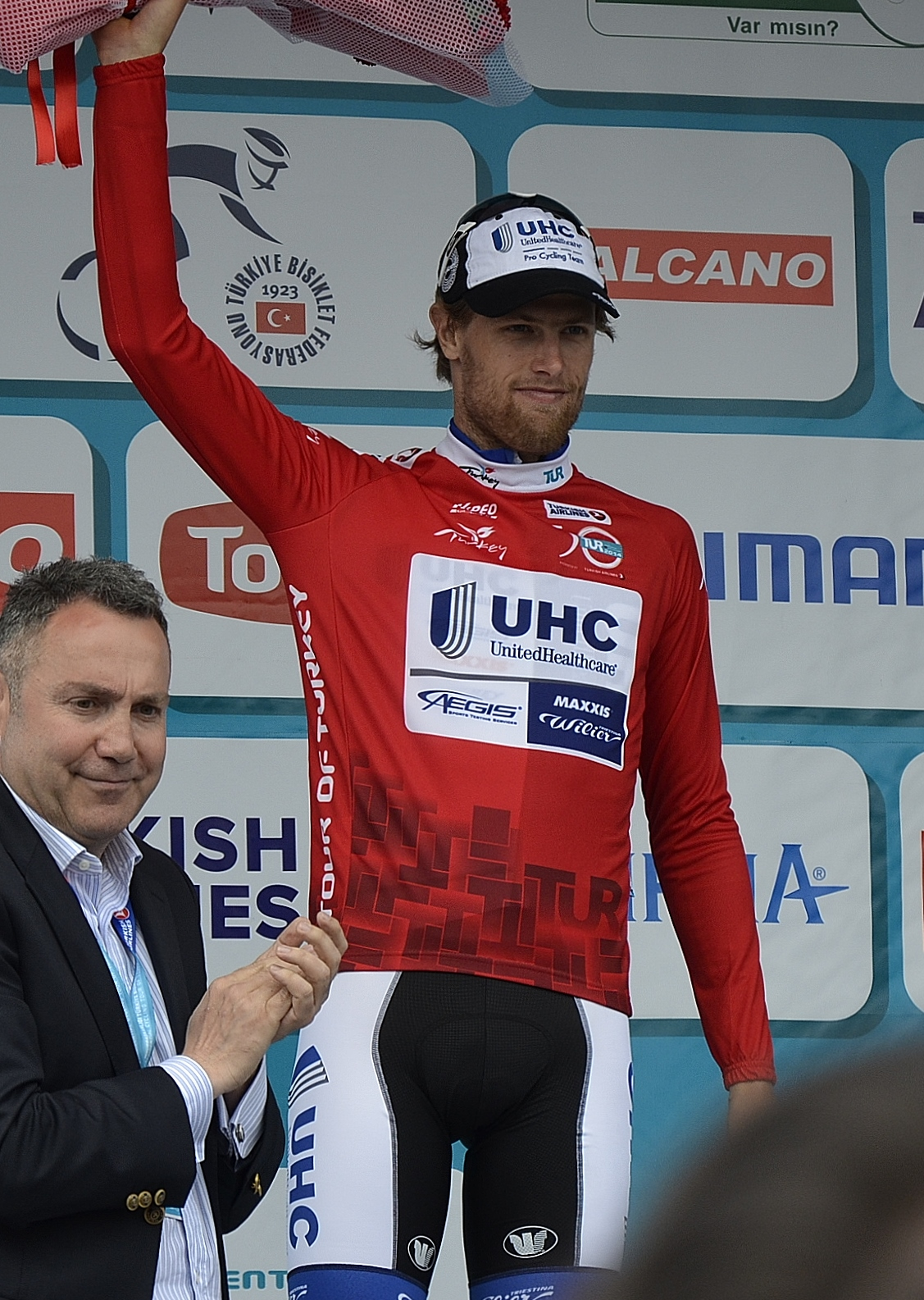 Marc de Maar at Tour of Turkey 2014